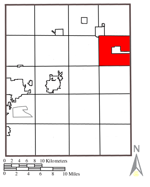 Map of Portage County, Ohio with Windham Township highlighted.